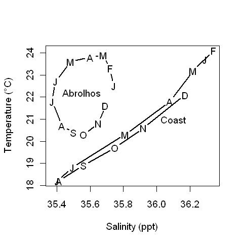 This is a plot showing the annual variability of ocean temperature and salinity in the Houtman Abrolhos and the adjacent coast. The actual data is monthly means from five metre deep sensors at Rat Island in the Houtman Abrolhos, and Dongara on the coast. The data was taken from Table 2 of Pearce, Alan (1997) "The Leeuwin Current and the Houtman Abrolhos" in Wells, F. E. (ed) The Marine Flora and Fauna of the Houtman Abrolhos Islands, Western Australia, Volume 1, pp 11–46. This plot effectively reproduces Figure 9 of that paper. The plot was created in R. The source code for reproducing it is as follows: plot(co_sal, co_temp, type="b", pch="", xlab="Salinity (ppt)", ylab="Temperature (°C)", xlim=range(c(ha_sal, co_sal))) text(co_sal, co_temp, lab=c("J", "F", "M", "A", "M", "J", "J", "A", "S", "O", "N", "D")) lines(ha_sal, ha_temp, type="b", pch="") text(ha_sal, ha_temp, lab=c("J", "F", "M", "A", "M", "J", "J", "A", "S", "O", "N", "D")) text(35.55,22.2,"Abrolhos") text(36.1,21,"Coast")